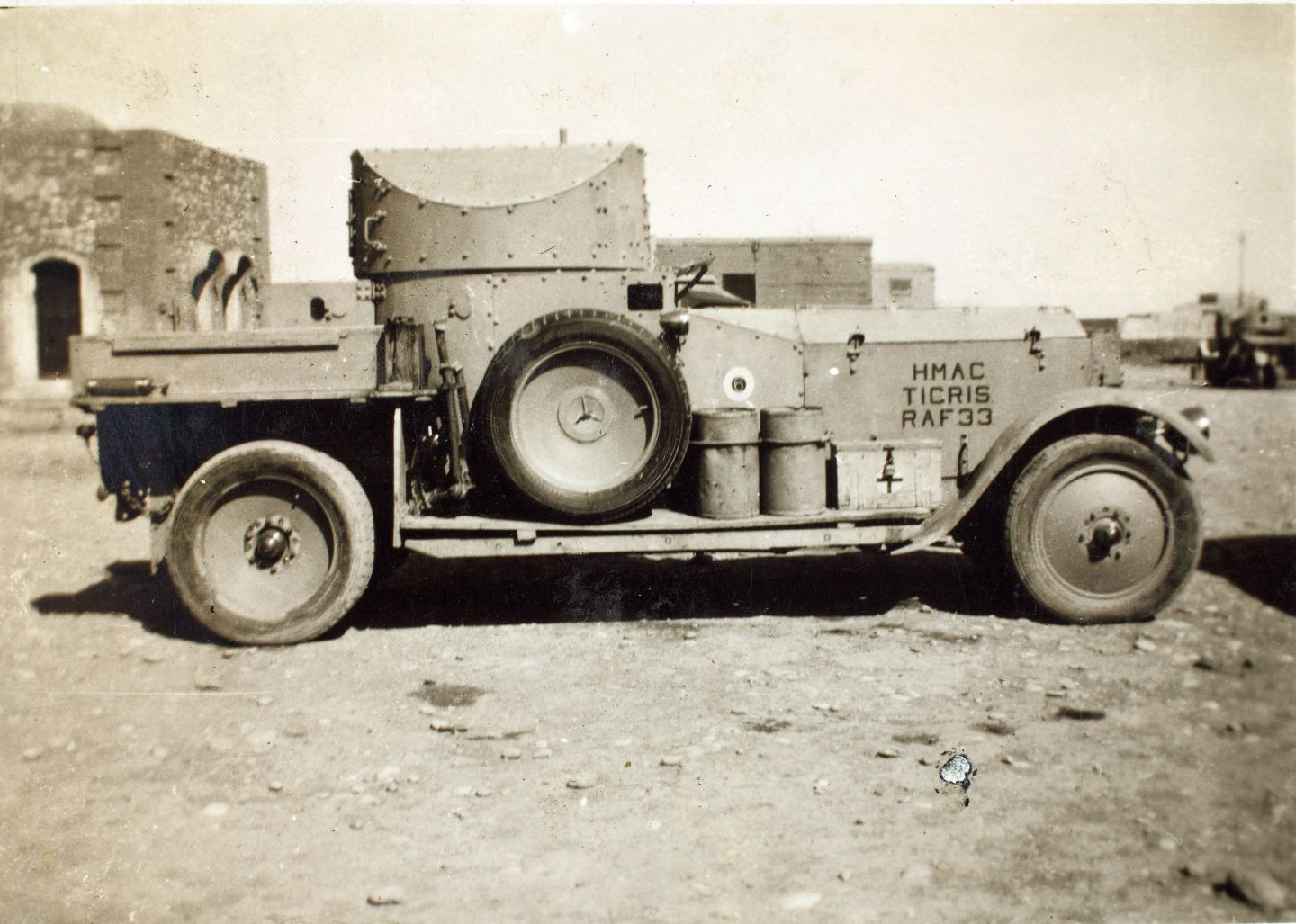 An armoured car of Royal Air Force.